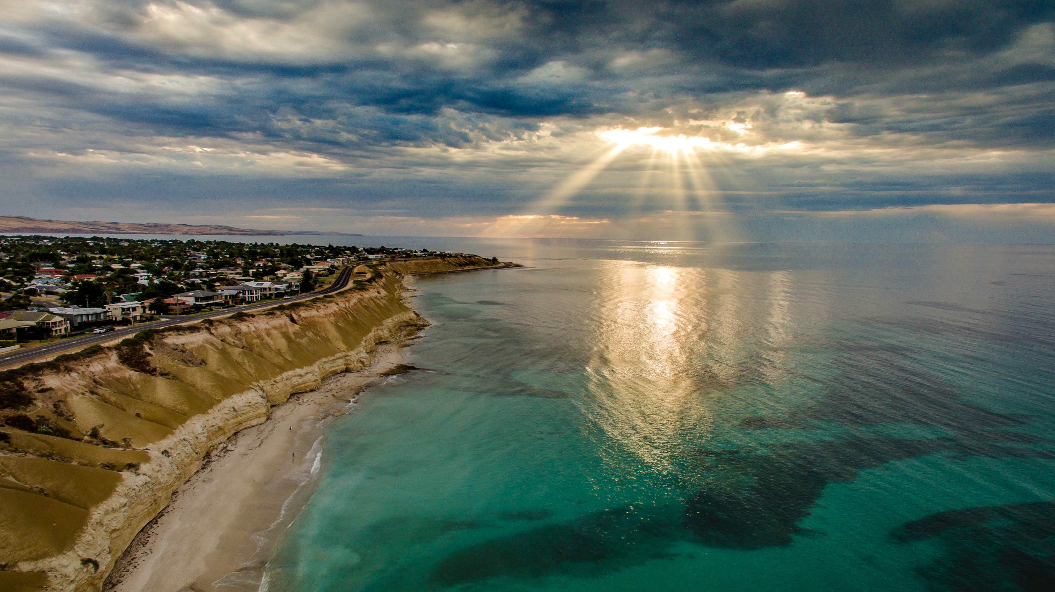 Port Willunga beaches overlooking the cliffs and shore.